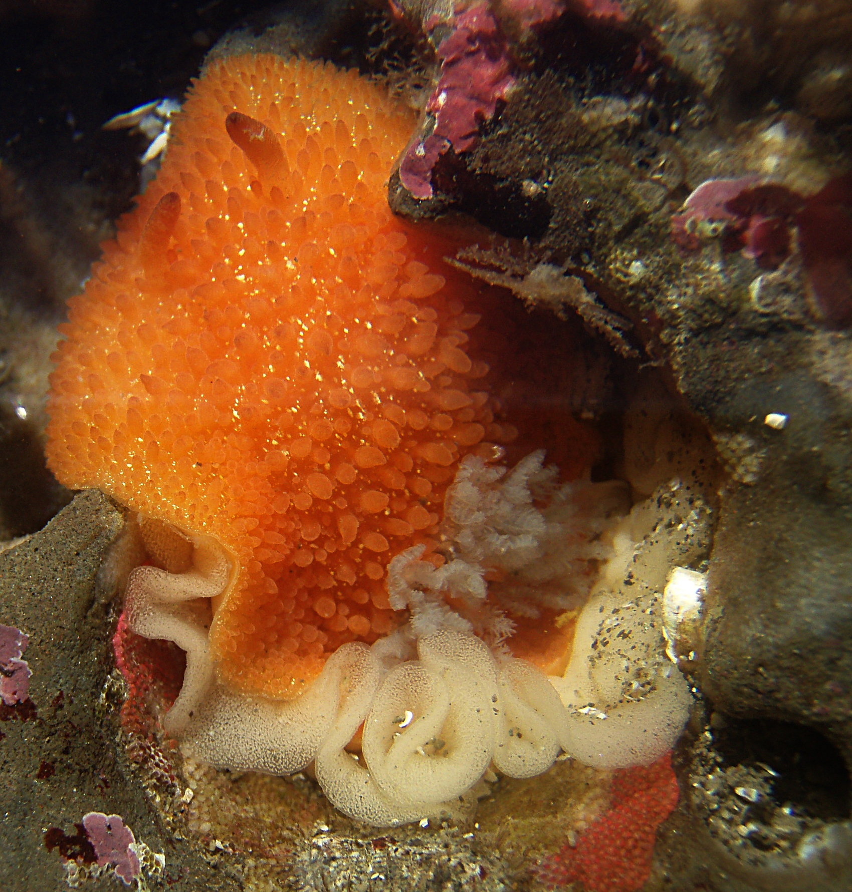 Nudibranch Acanthodoris lutea at California tide pools is laying eggs. You could see the explanation of the image here.